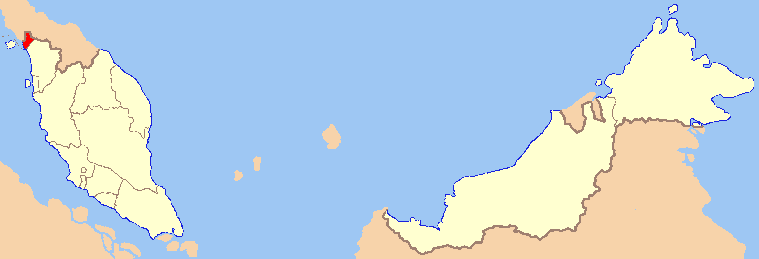 Map of Malaysia with Perlis highlighted